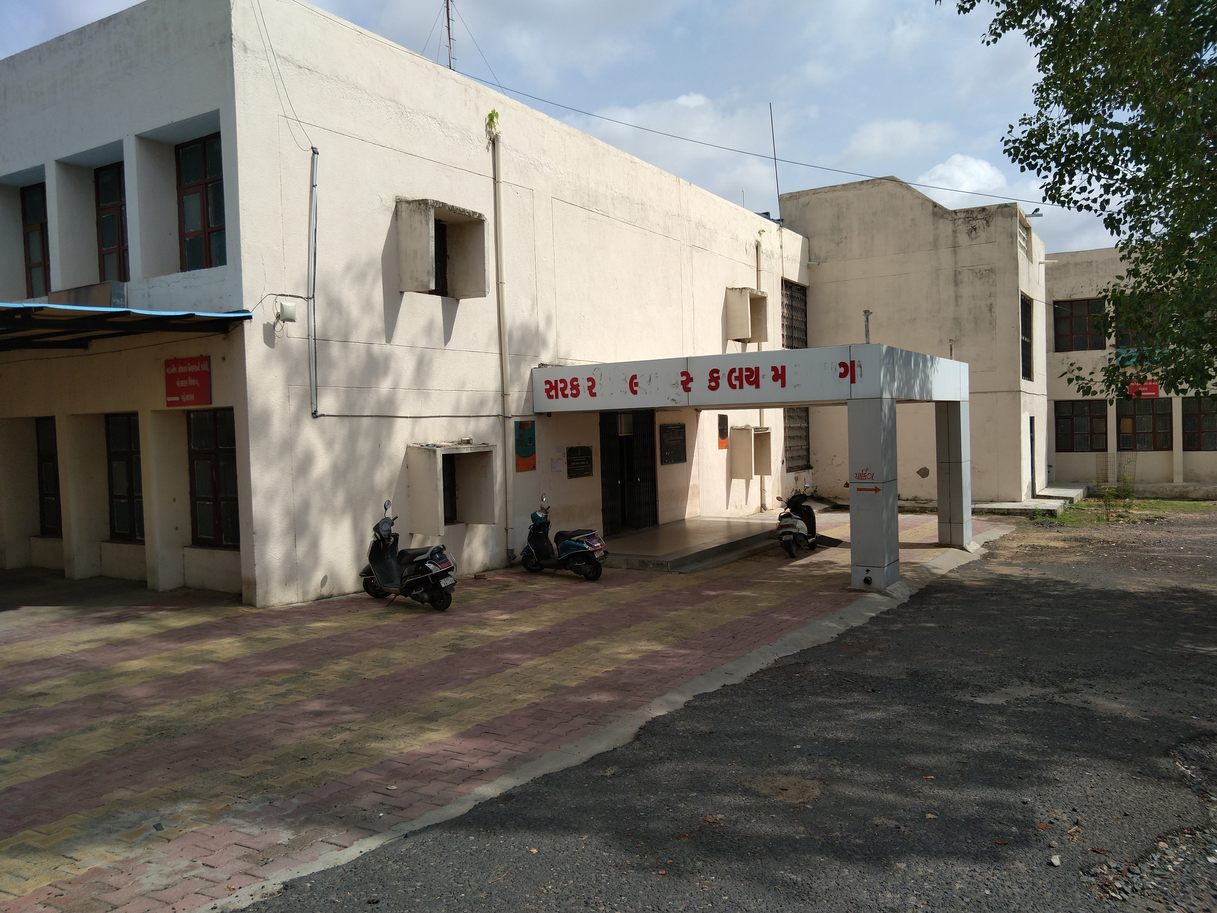 Government District Library Mehsana Gujarat India